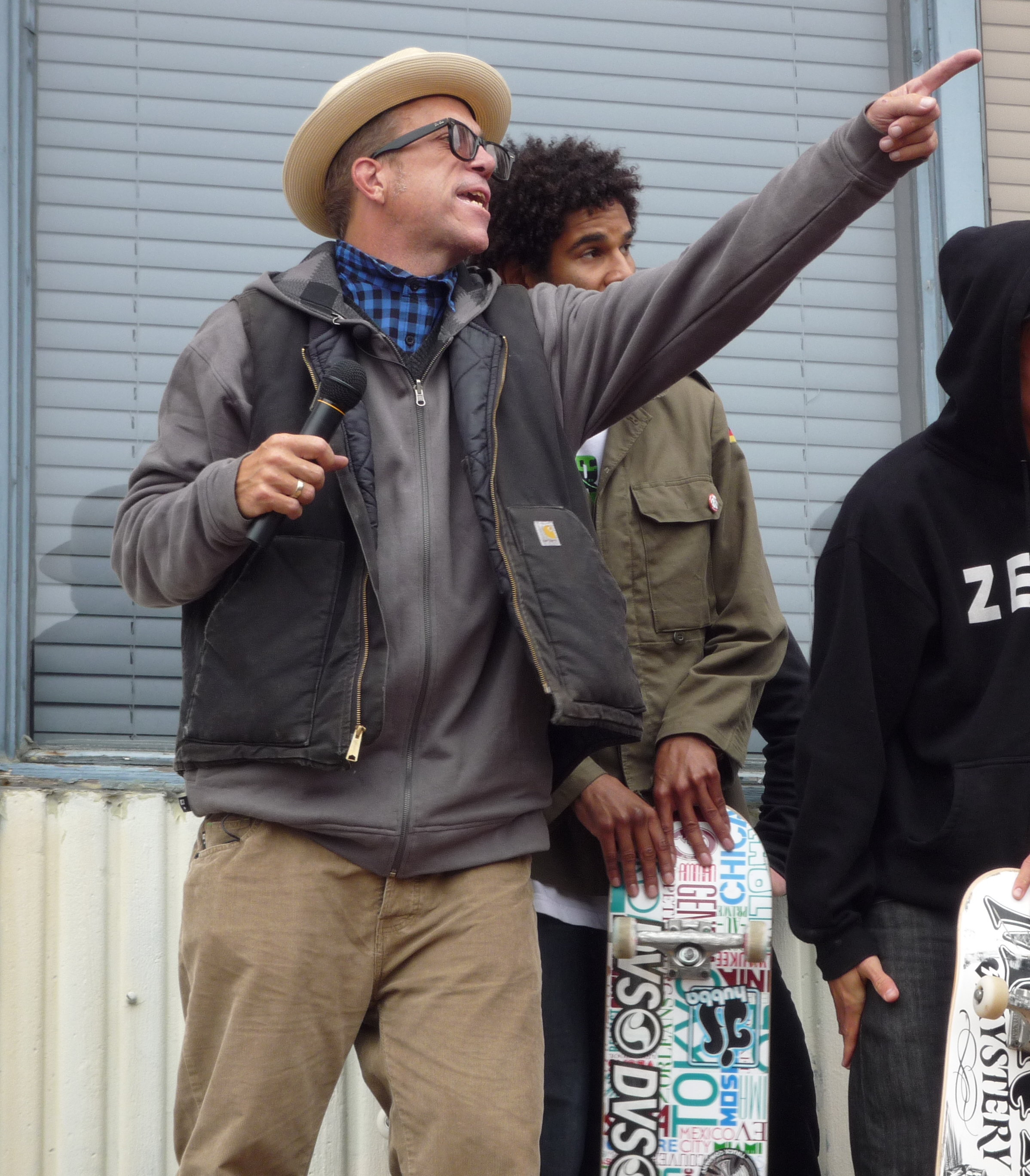 Jake Phelps at a skate contest organized by Thrasher Magazine